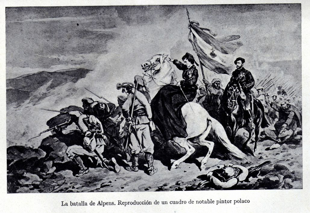 María de las Nieves de Braganza en la Batalla de Alpens